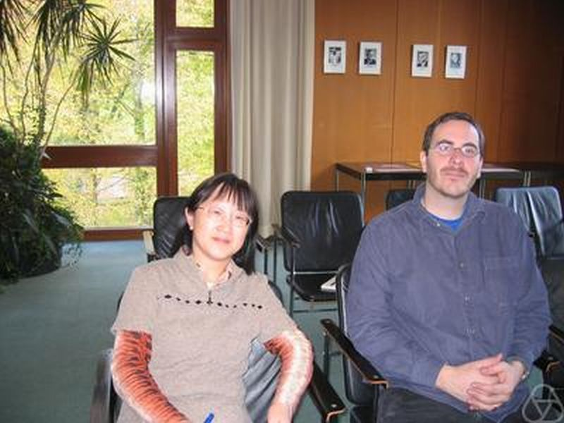 Tan Lei (left), Lasse Rempe, Oberwolfach 2008